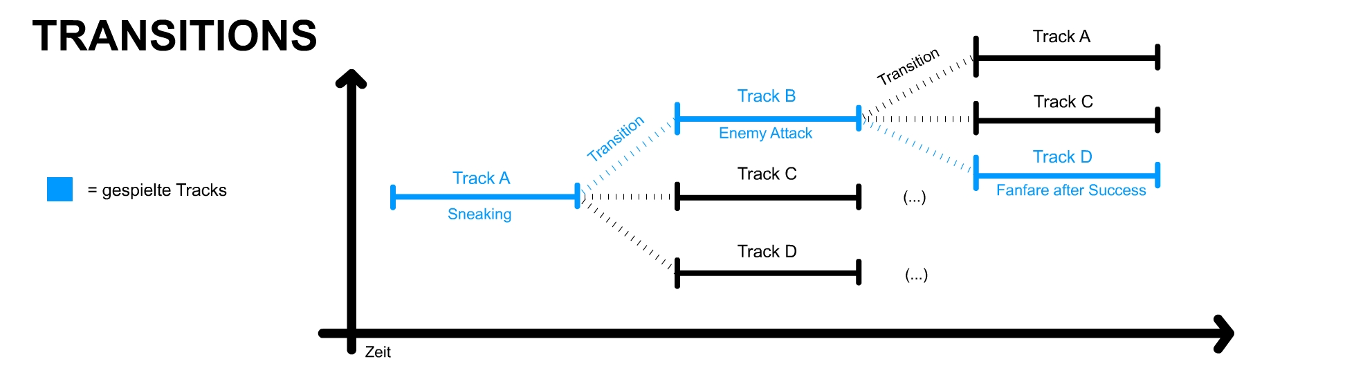 Transitions